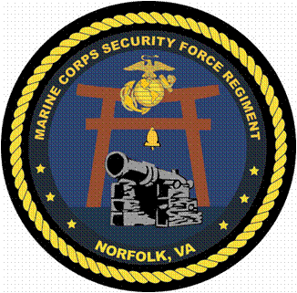 This is the official Marine Corps Security Force Regiment logo